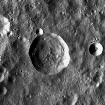 LROC . Glazenap lies on top of nearby Mendeleev ejecta blanket.